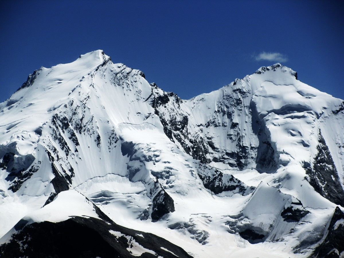 Dom and Täschhorn, north-west walls